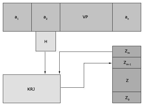 A technical scheme.